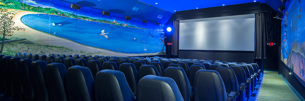 Inside the theater along the sides you'll find the murals painted by Glenn Wolff and Rufus Snoddy.